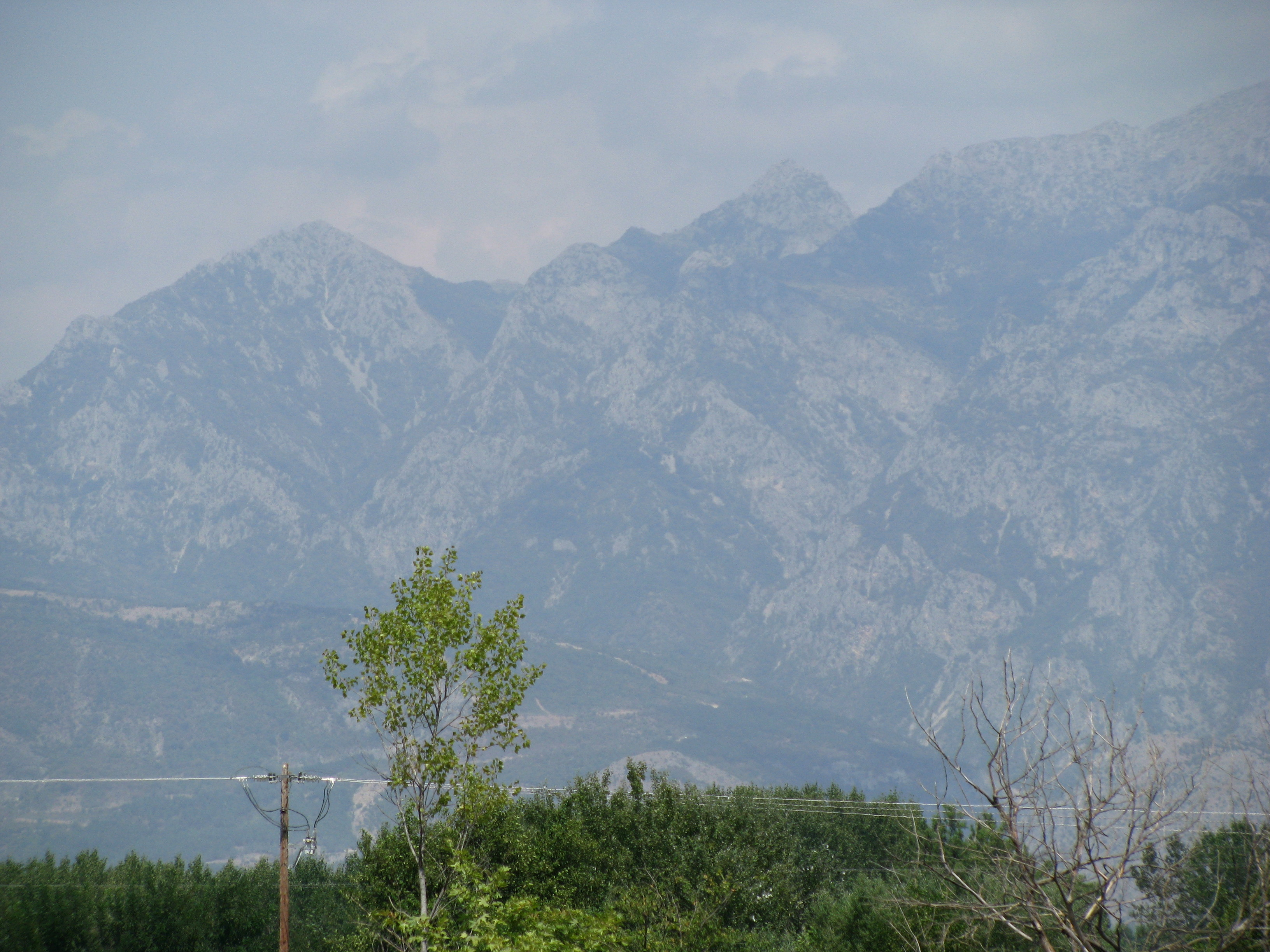 Mountain of Dzena/Kozhuh, Aegean Macedonia